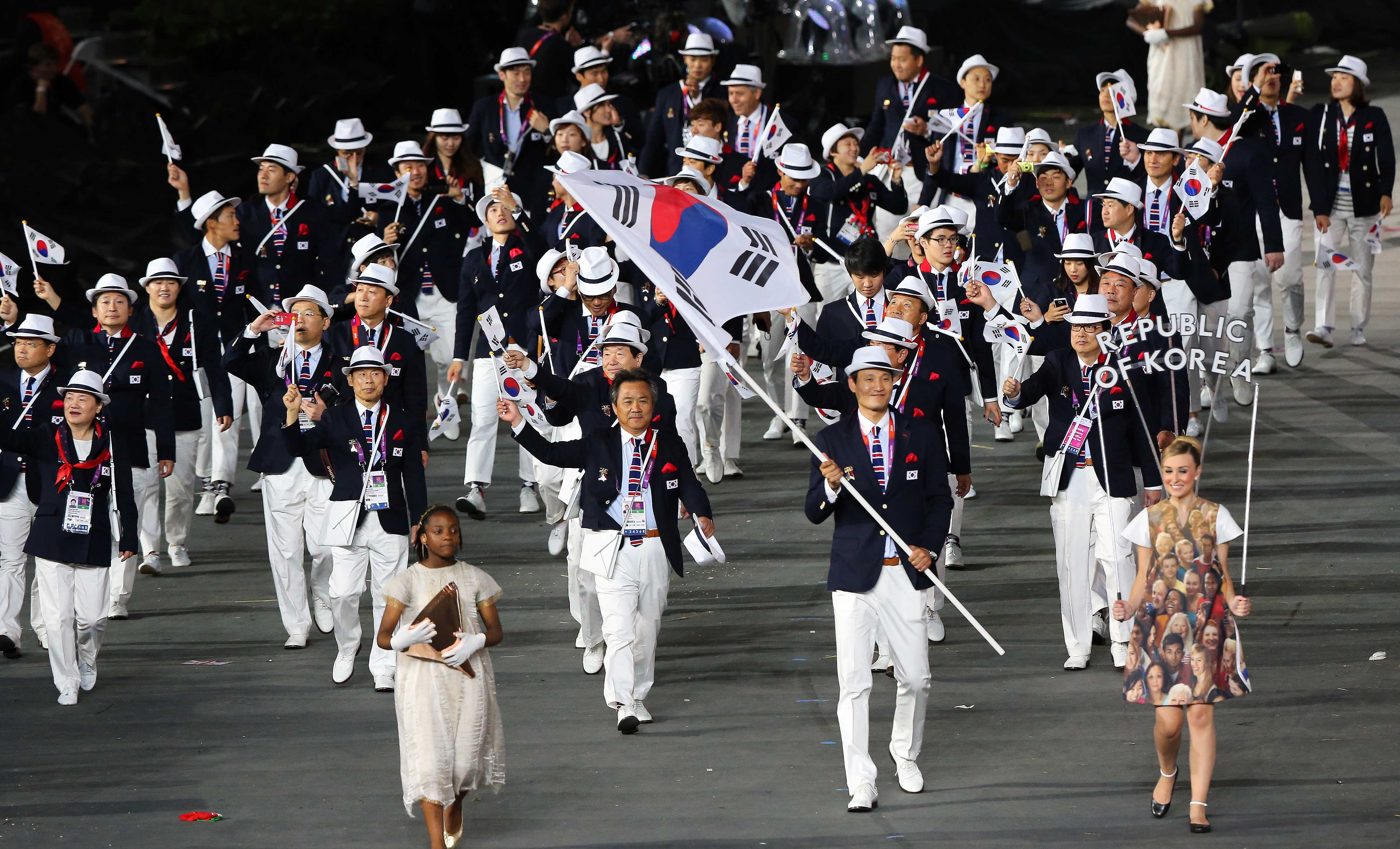 2012 London Olympic Games Opening Ceremony Team Korea 2012.7.29. Photo by Korean Olympic Committee Ministry of Culture, Sports and Tourism Korean Culture and Information Service 2012 런던 올림픽 개막식 행사 한국대표팀 입장 사진제공 - 대한체육회 문화체육관광부 해외문화홍보원